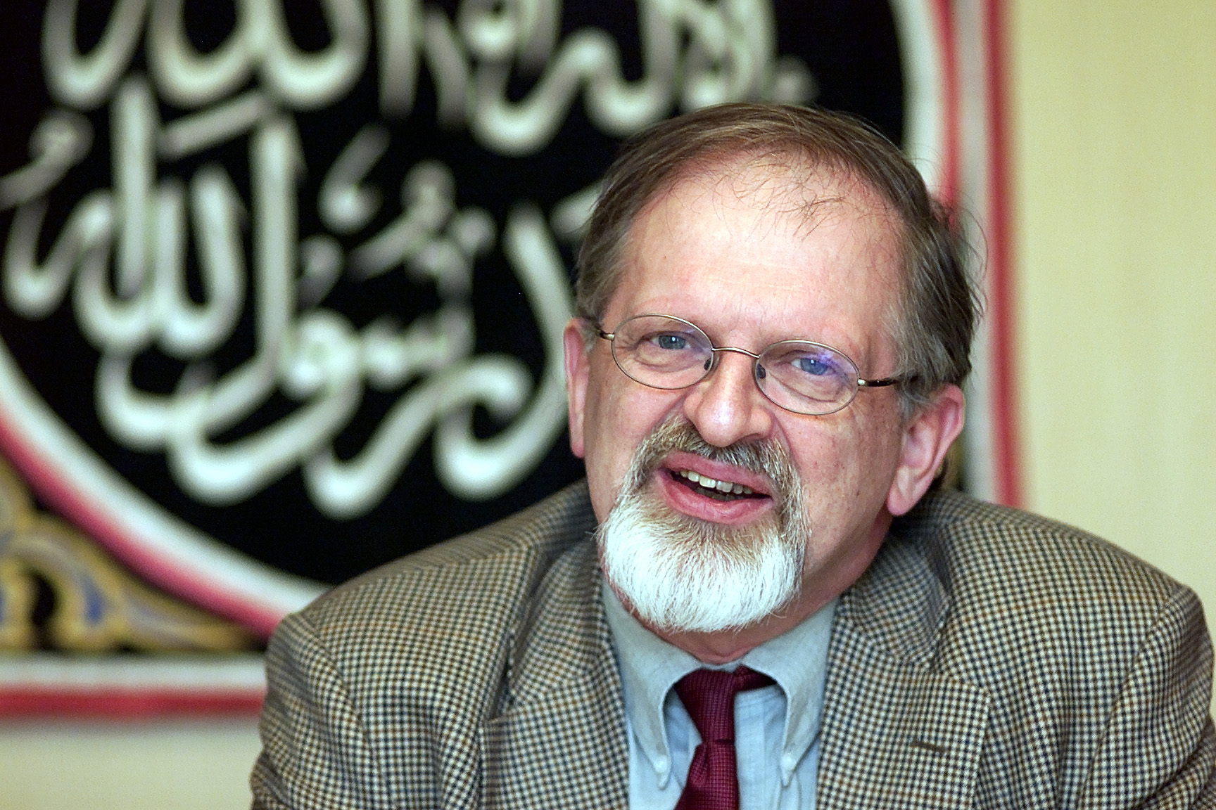 Hans Jansen (arabist)